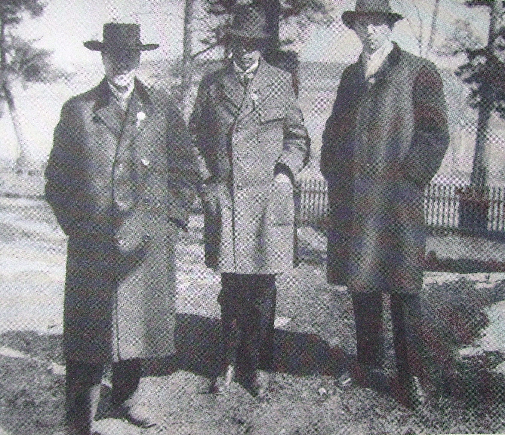 Picture of Erik Hedén, Ivan Oljelund and Zeth Höglund during trial of treason 1916